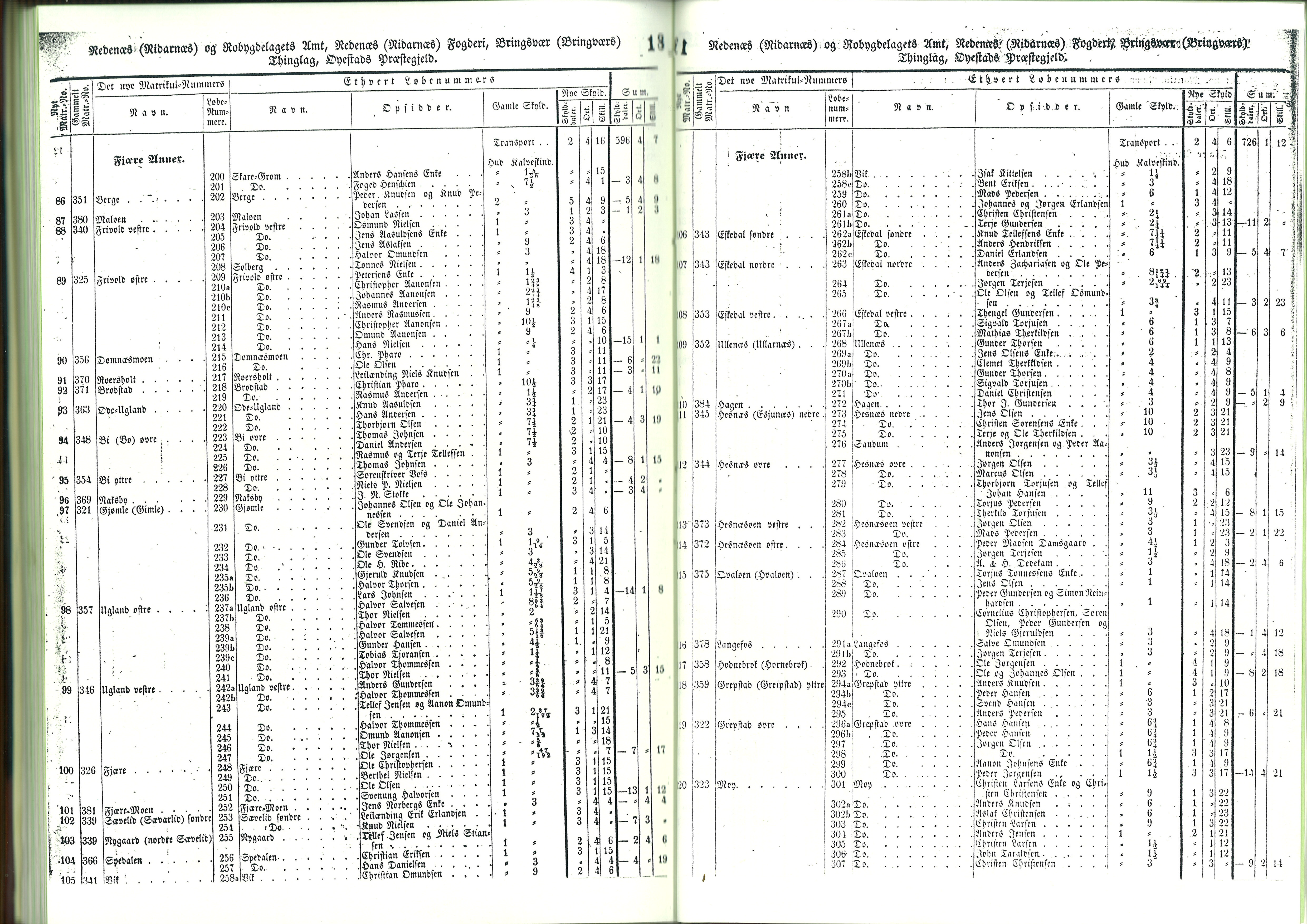 Cadastre register, Norway, 1842